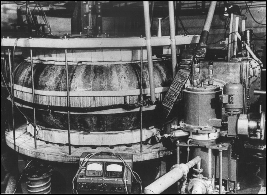 The world's first tokamak device: the Russian T1 Tokamak at the Kurchatov Institute in Moscow. Plasmas in the range of 0.4 cubic metres were produced in its copper vacuum vessel.